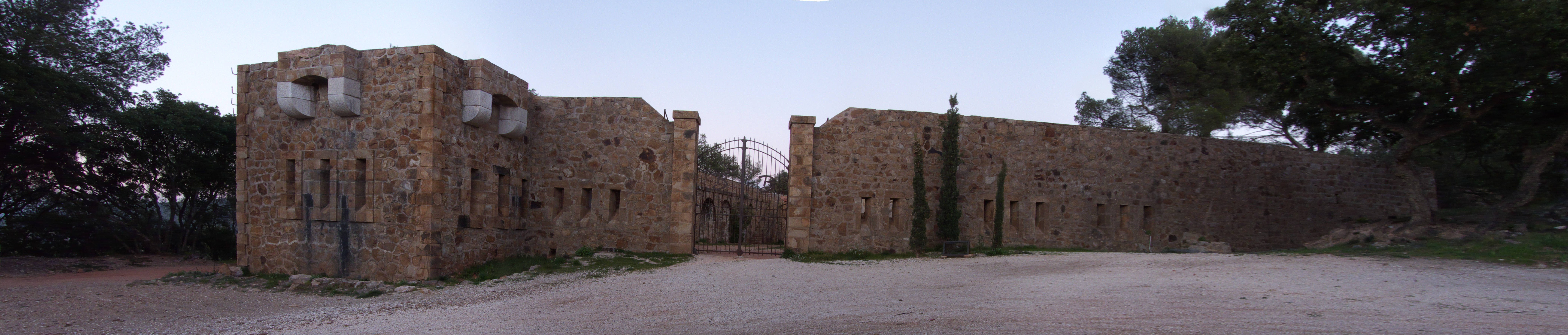 The entrance of the 'Fort de la Bayarde' at Carqueiranne.